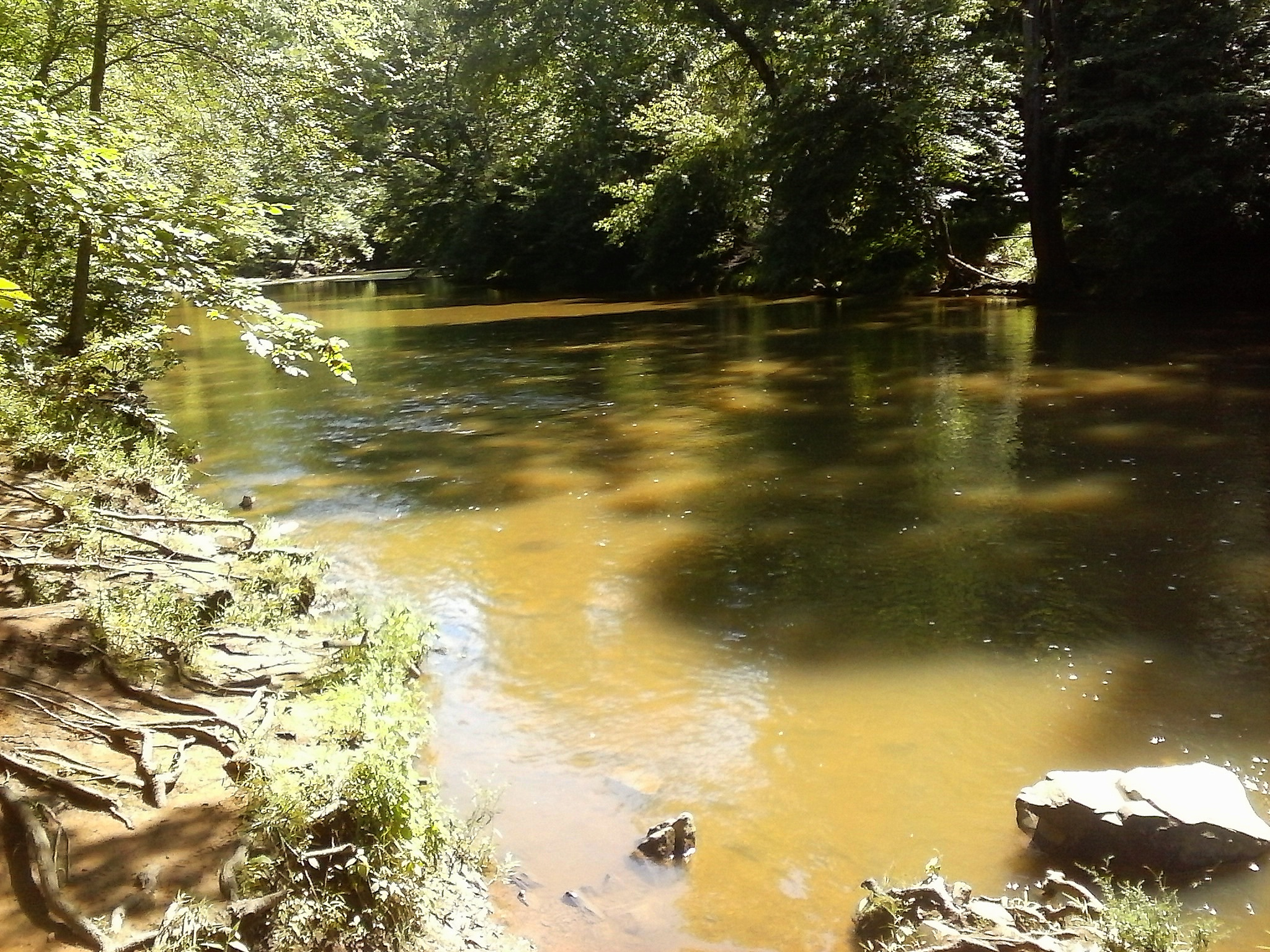 Bull Run in summer 2017 from the Bull Run-Occoquan Trail.